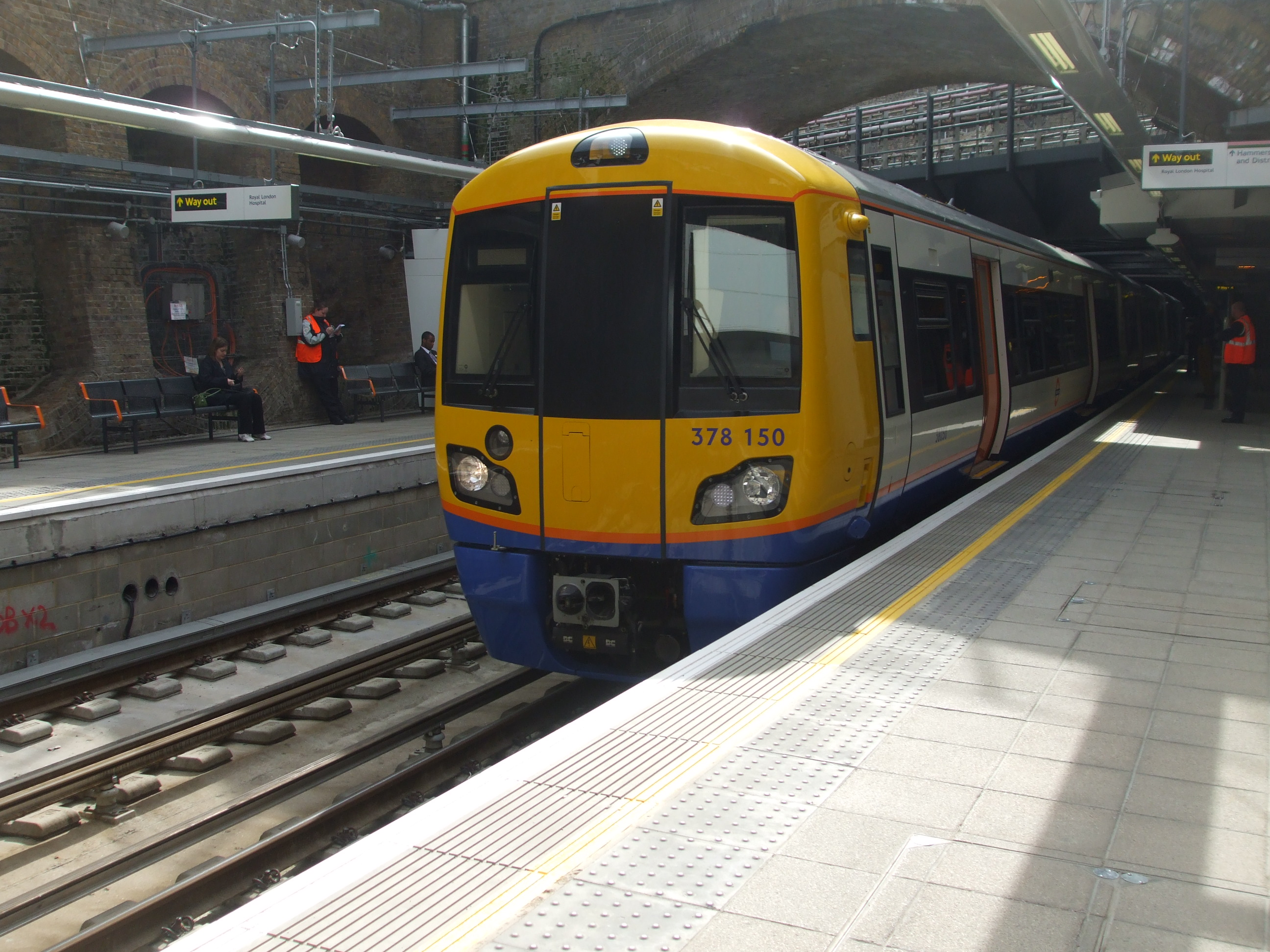 Class 378 unit 378150 calls at Whitechapel station with a Dalston Junction service, a day after reopening of the East London Line as part of the London Overground on 27 April 2010